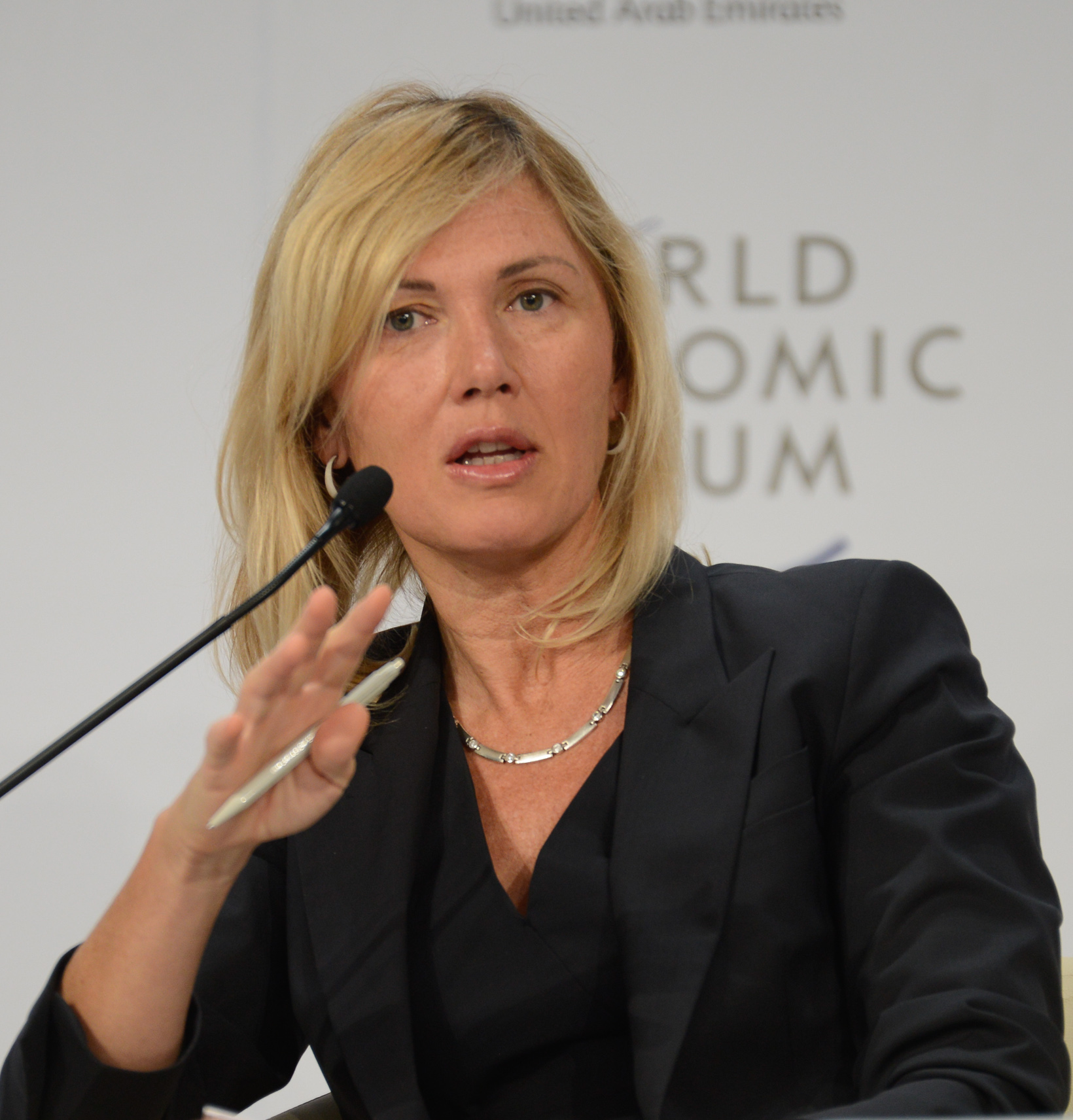 DUBAI, UNITED ARAB EMIRATES, 14 November 2012 - Beatrice Weder di Mauro, Professor of Economics, Johannes Gutenberg University Mainz, Germany; Young Global Leader Alumnus; Global Agenda Council on Fiscal Sustainability, speaks during a plenary session on 21st century challenges at the World Economic Forum's Summit on the Global Agenda 2012 held in Dubai from 12-14 November 2012. Copyright World Economic Forum ( by Norbert Schiller